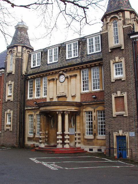 Harrow High School and Sports College. Taken from the junction of Sheepcote Road and Gayton Road